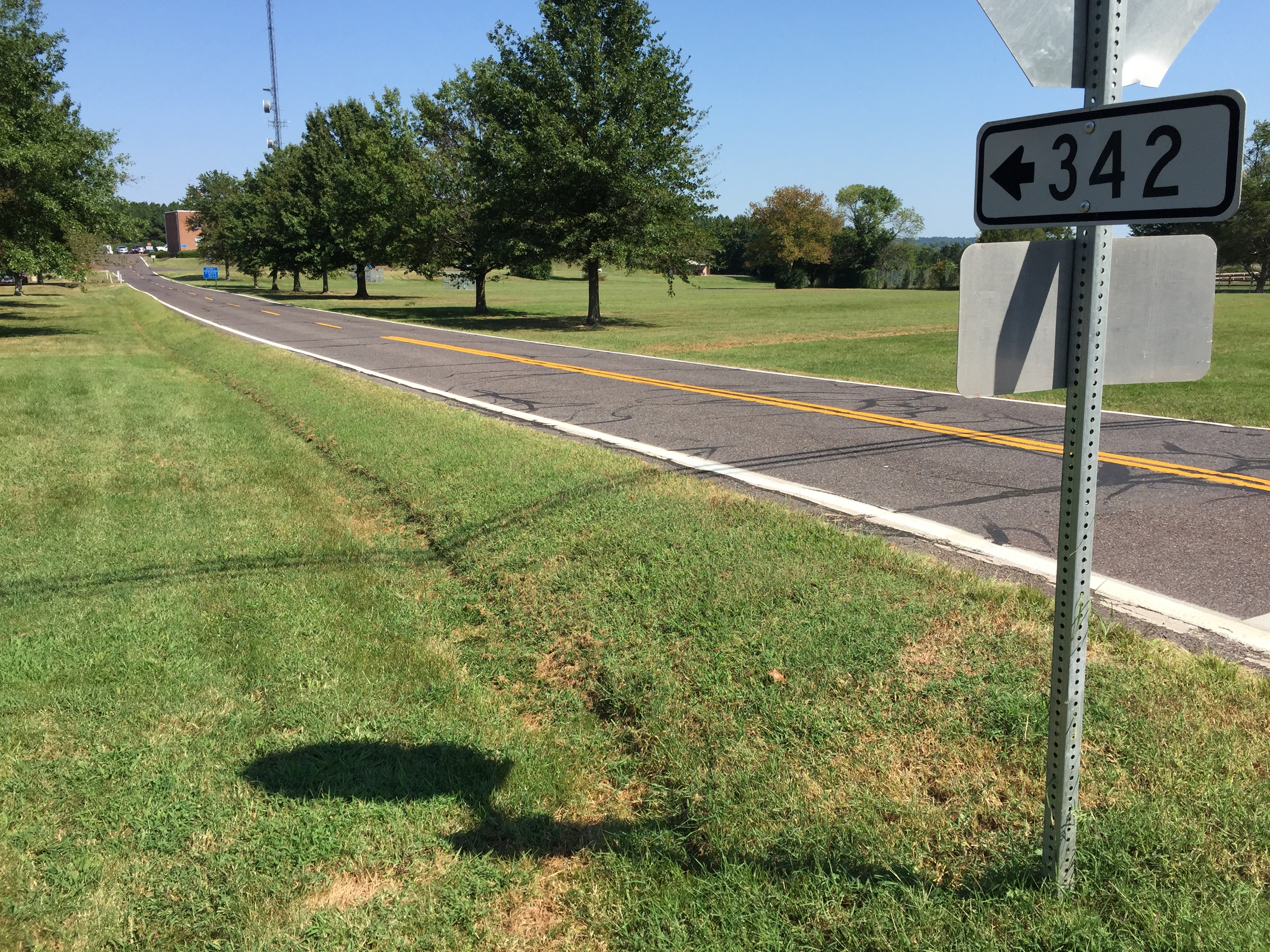 View north along Virginia State Route 342 (State Police Road) at Brandy Road (Virginia State Secondary Route 762) in Inlet, Culpeper County, Virginia